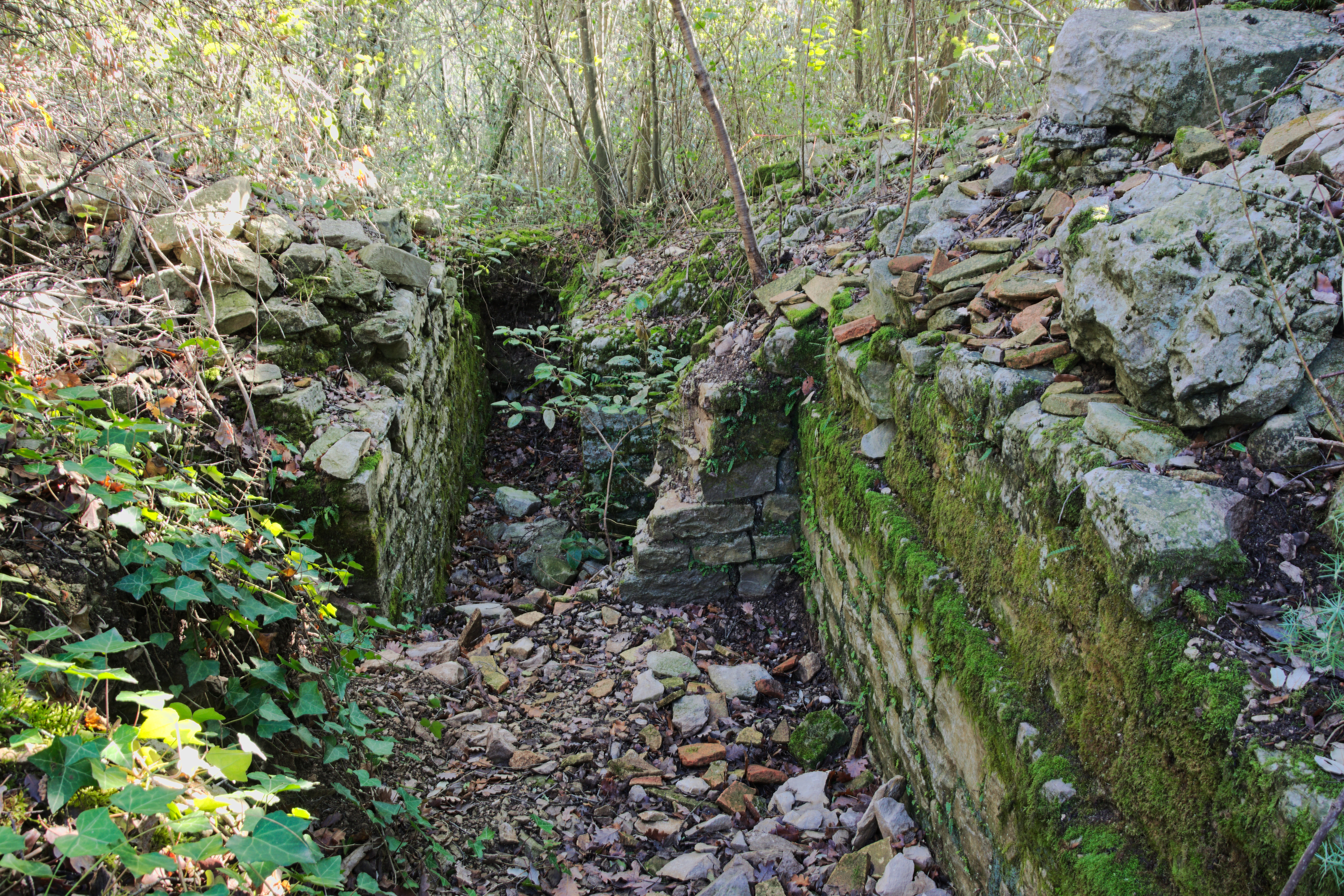 Oppidum and ruins of Gallo-Roman villa in Sauve (Gard)